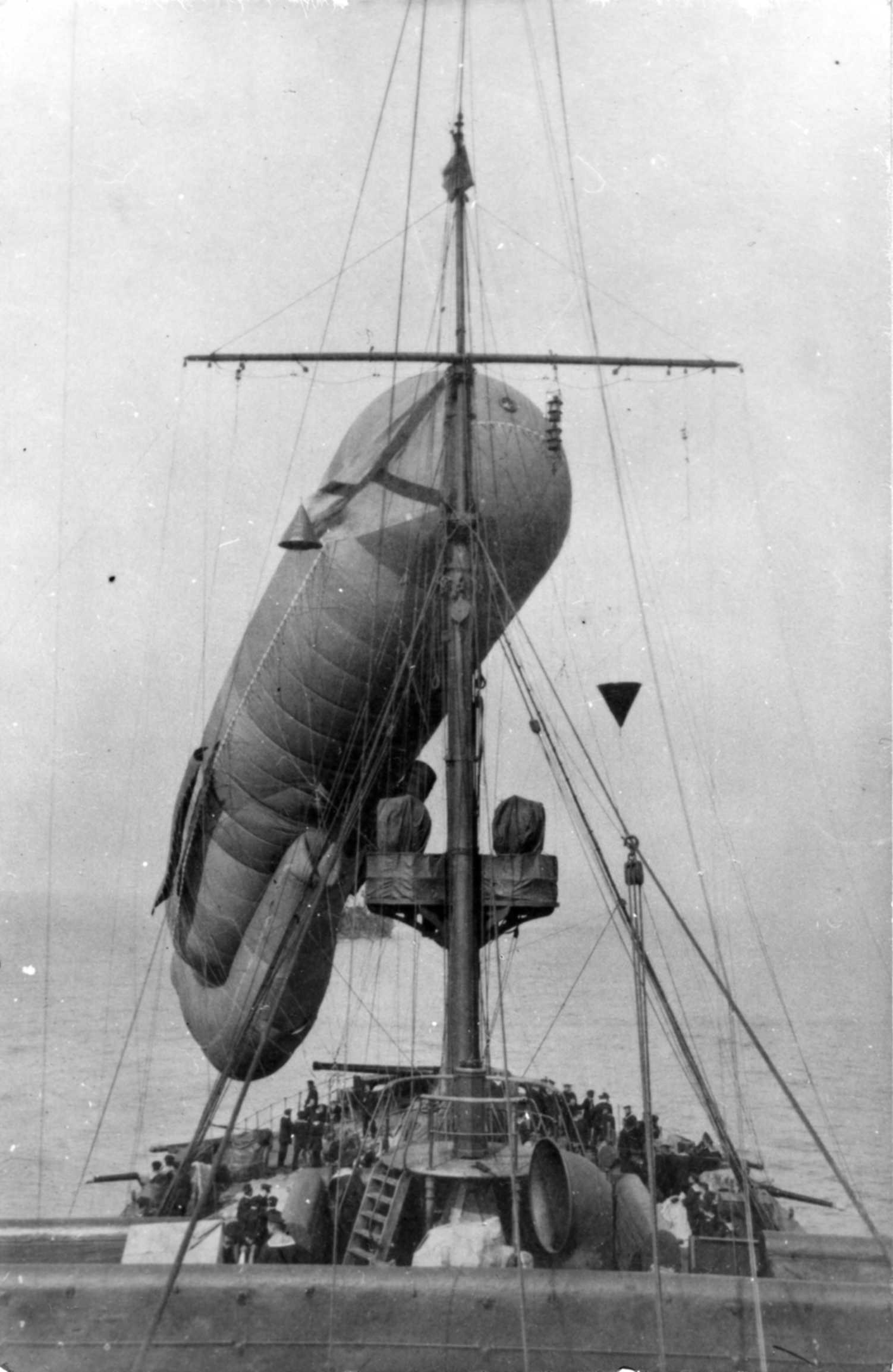 Imperial Russian cruiser Rossiya.